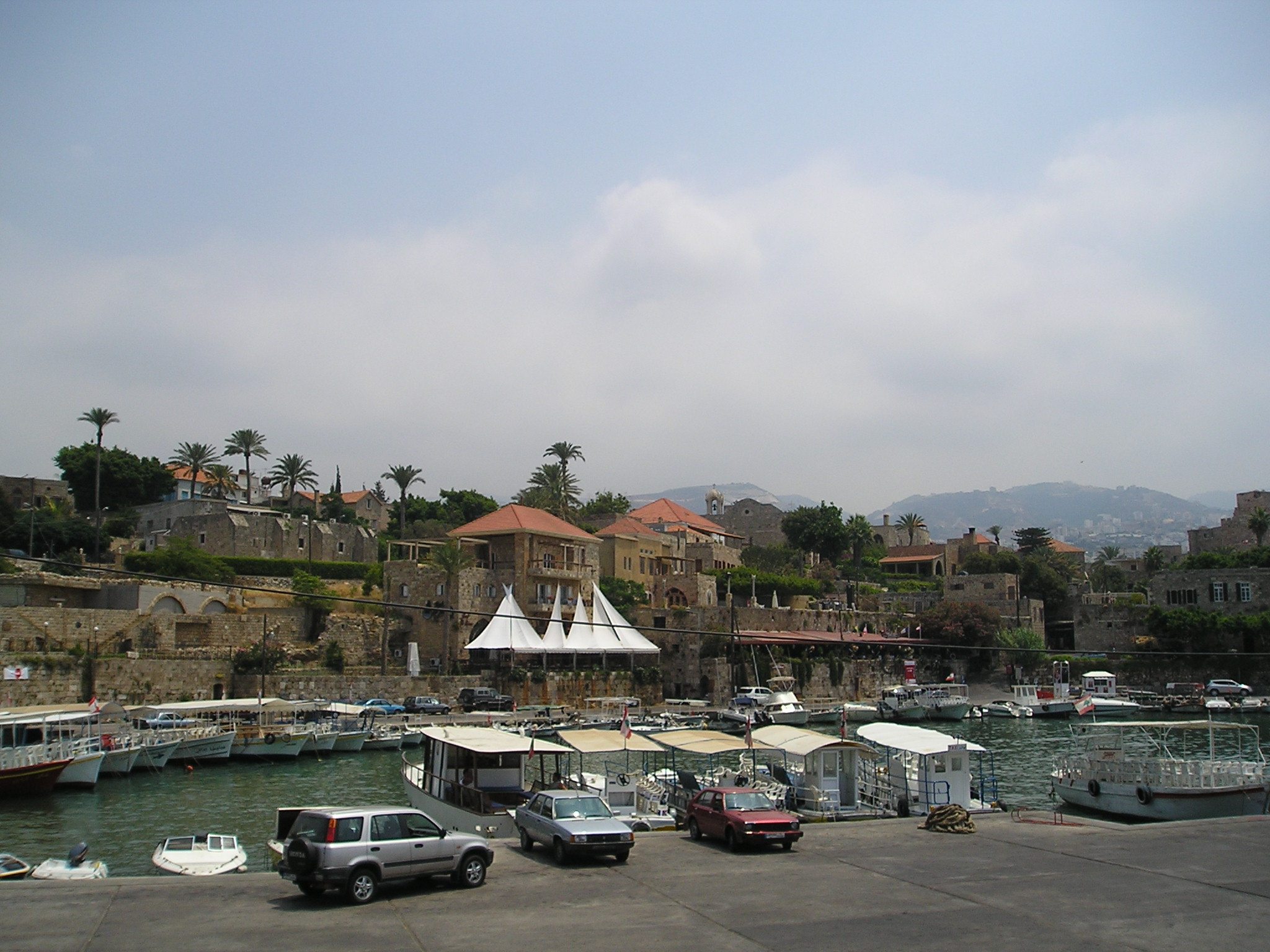 Byblos, Lebanon - the harbour